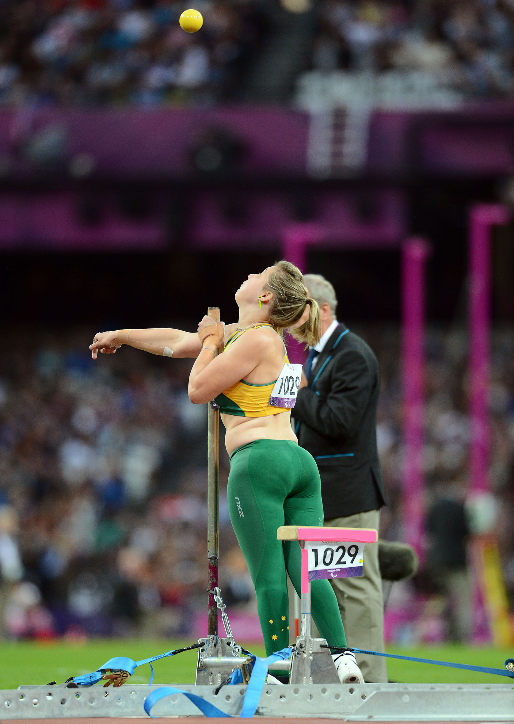 Photograph of Australian Paralympic team member Brydee Moore at the 2012 Summer Paralympic Games in London